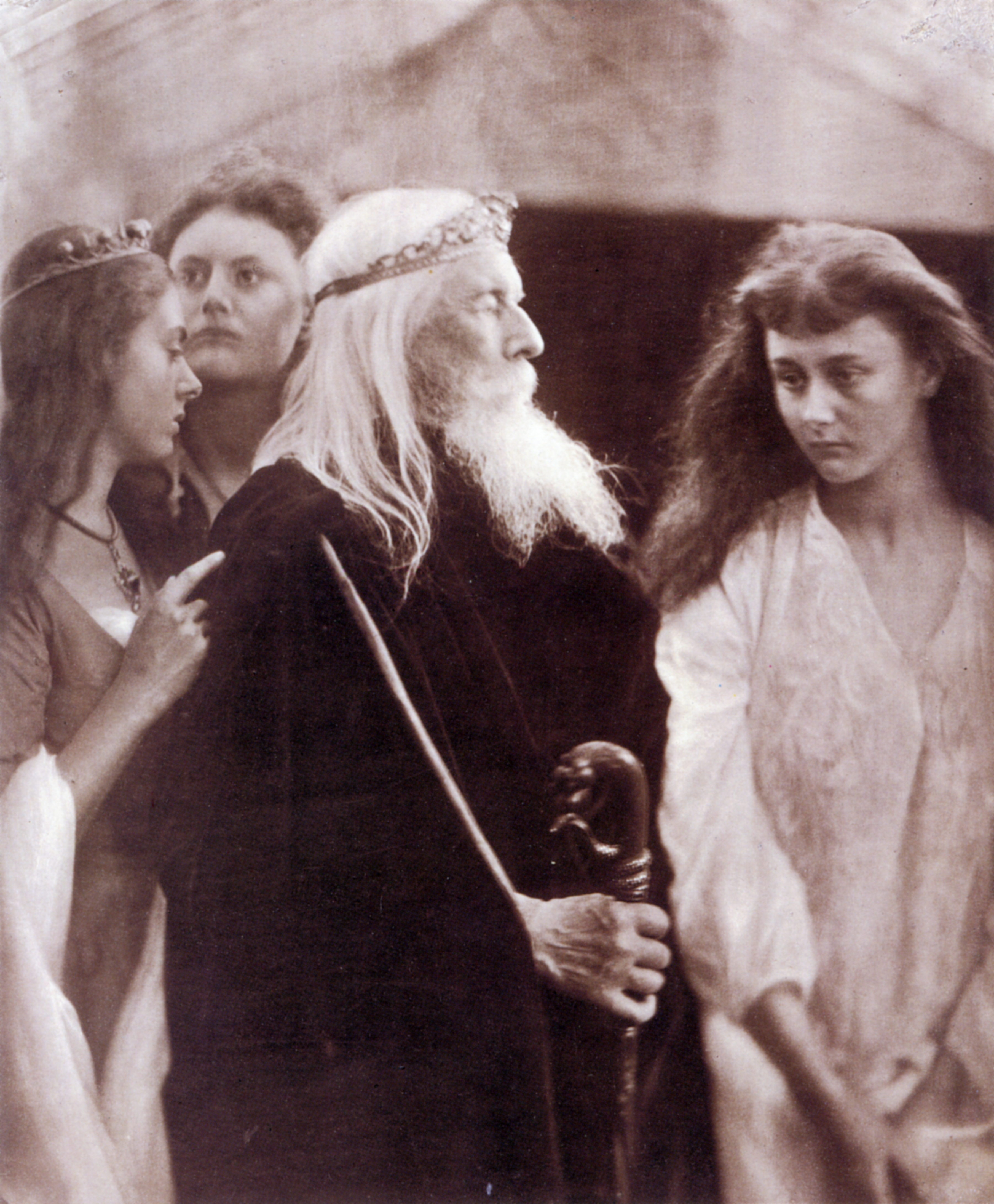 King Lear allotting his Kingdom to his three daughters. Sitters are Lorina Liddell, Edith Liddell, Charles Hay Cameron and Alice Liddell. Carbon print, 345 x 285mm (13 5/8 x 11 1/4").